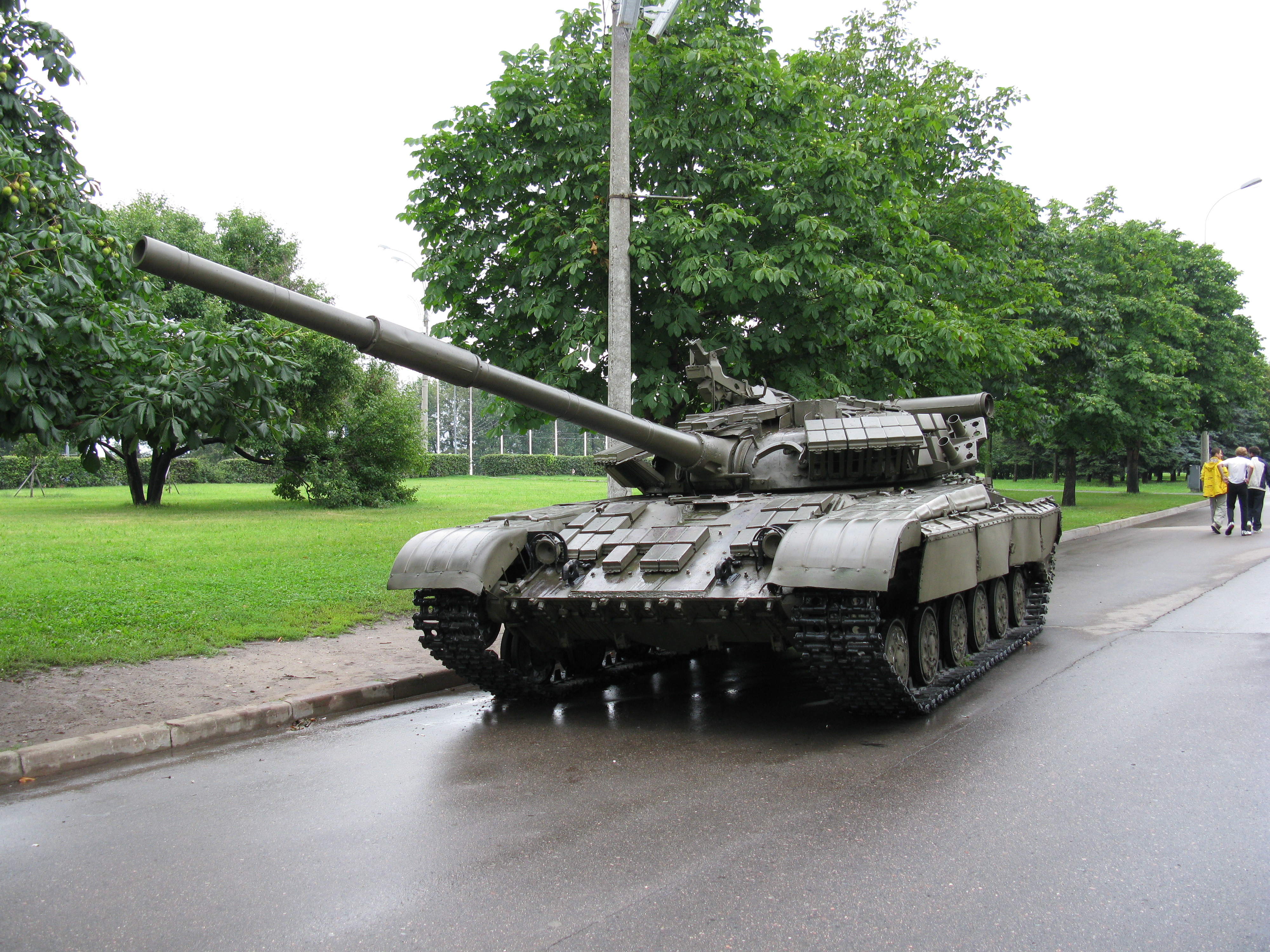 T-64 tank (front) on Poklonnaya Hill, Moscow, Russia